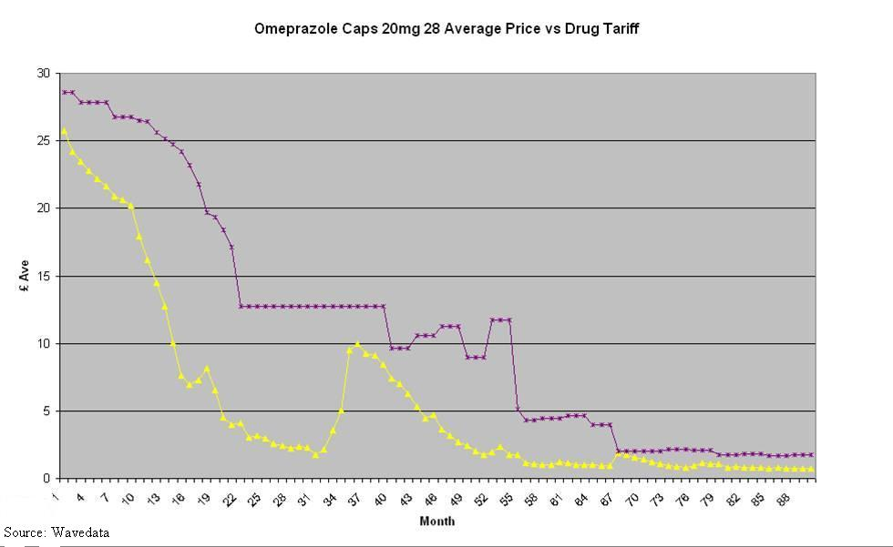 Bouncing generic drug price decline compared with the reimbursement price